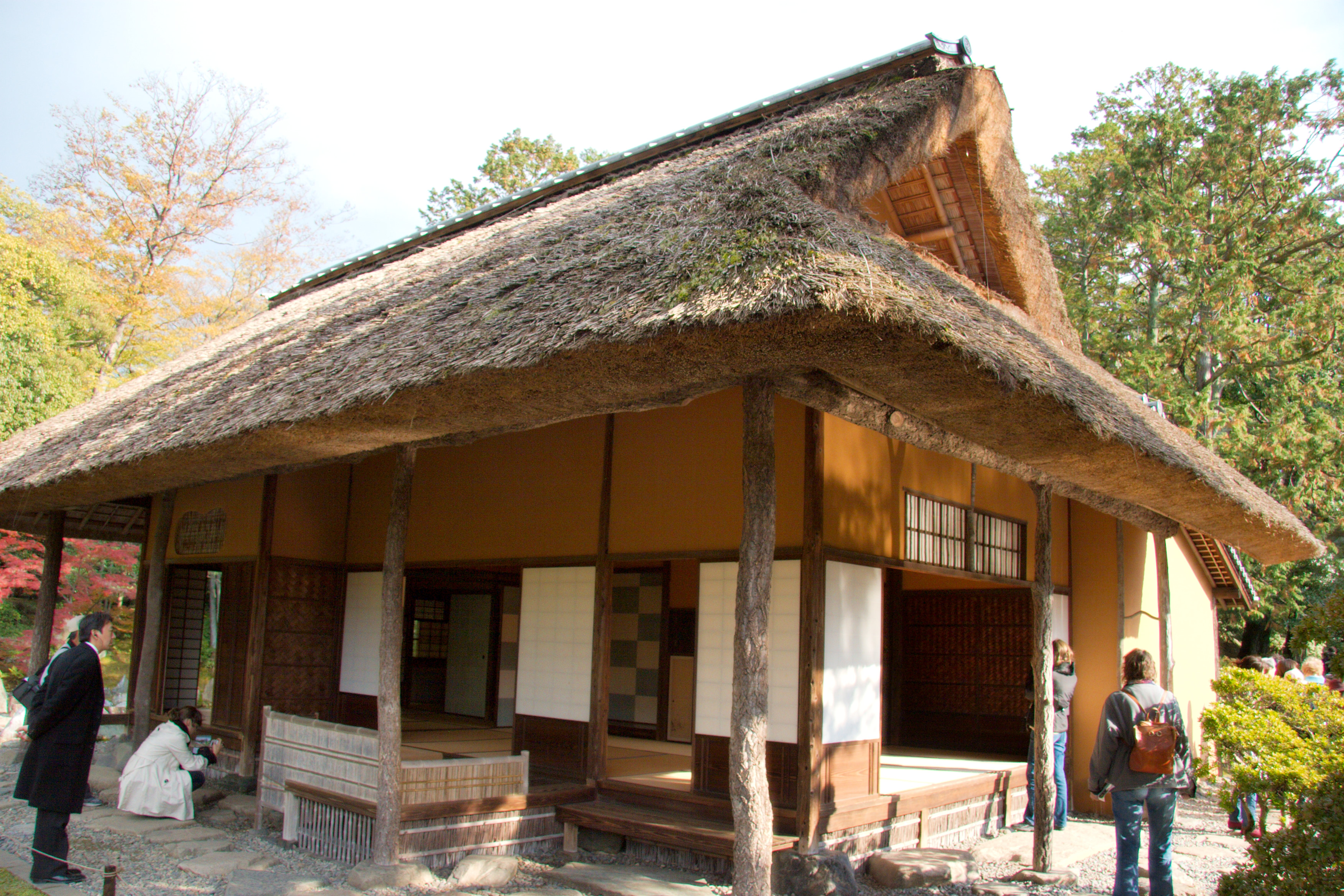 Katsura Rikyu